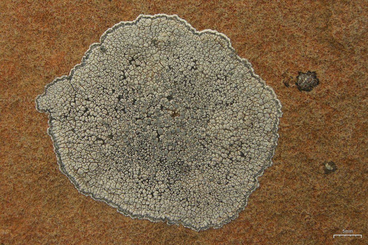 Lecanora rupicola (L.) Zahlbr. 20090624.124 Mount Stearns, Willmore Wilderness, Alberta On alpine sandstone. Thanks to Curtis Bjork for this ID.